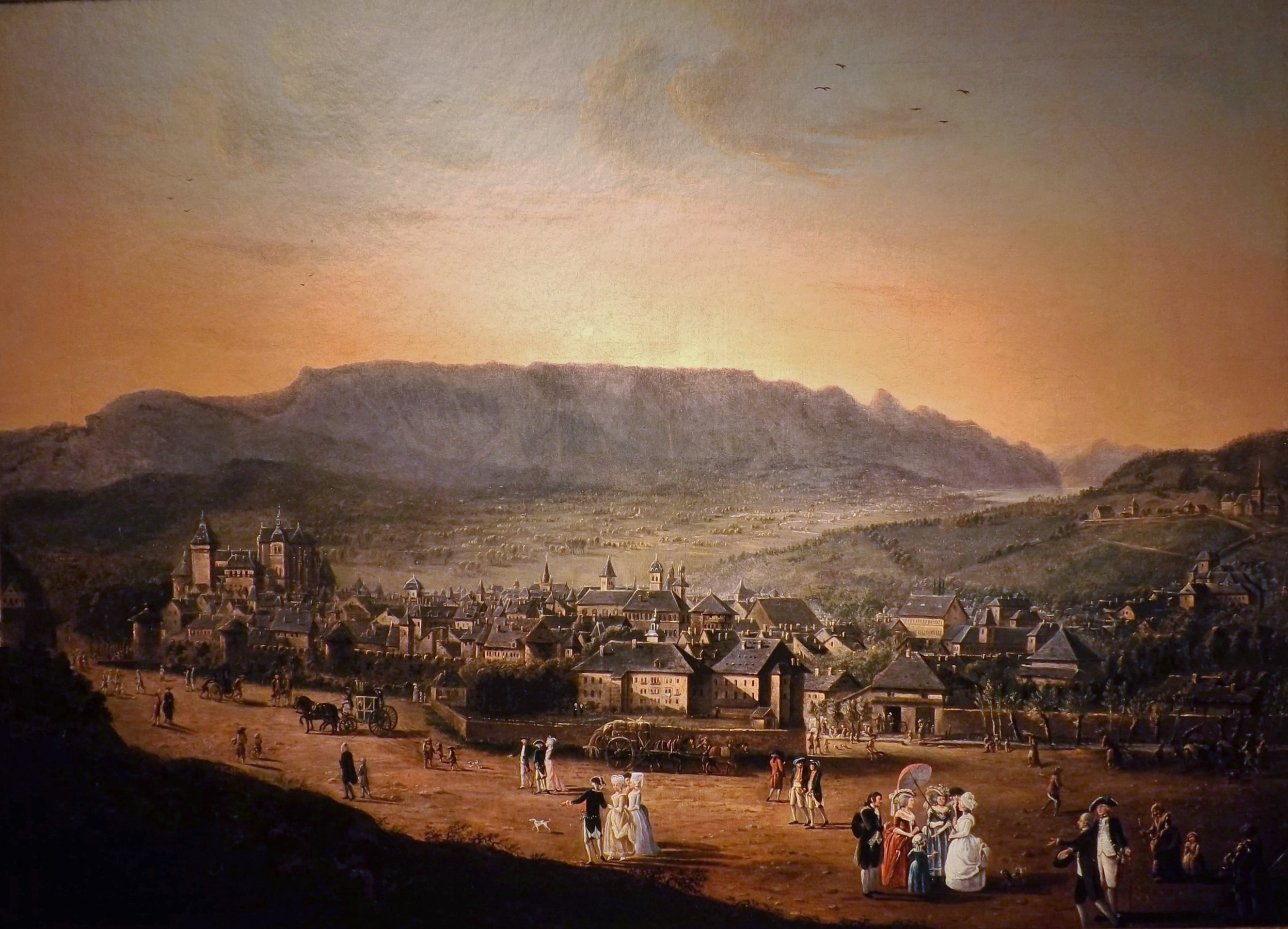 Picture of a painting of Chambéry around year 1780, at that time city of Kingdom of Sardinia, today department of Savoie, France.